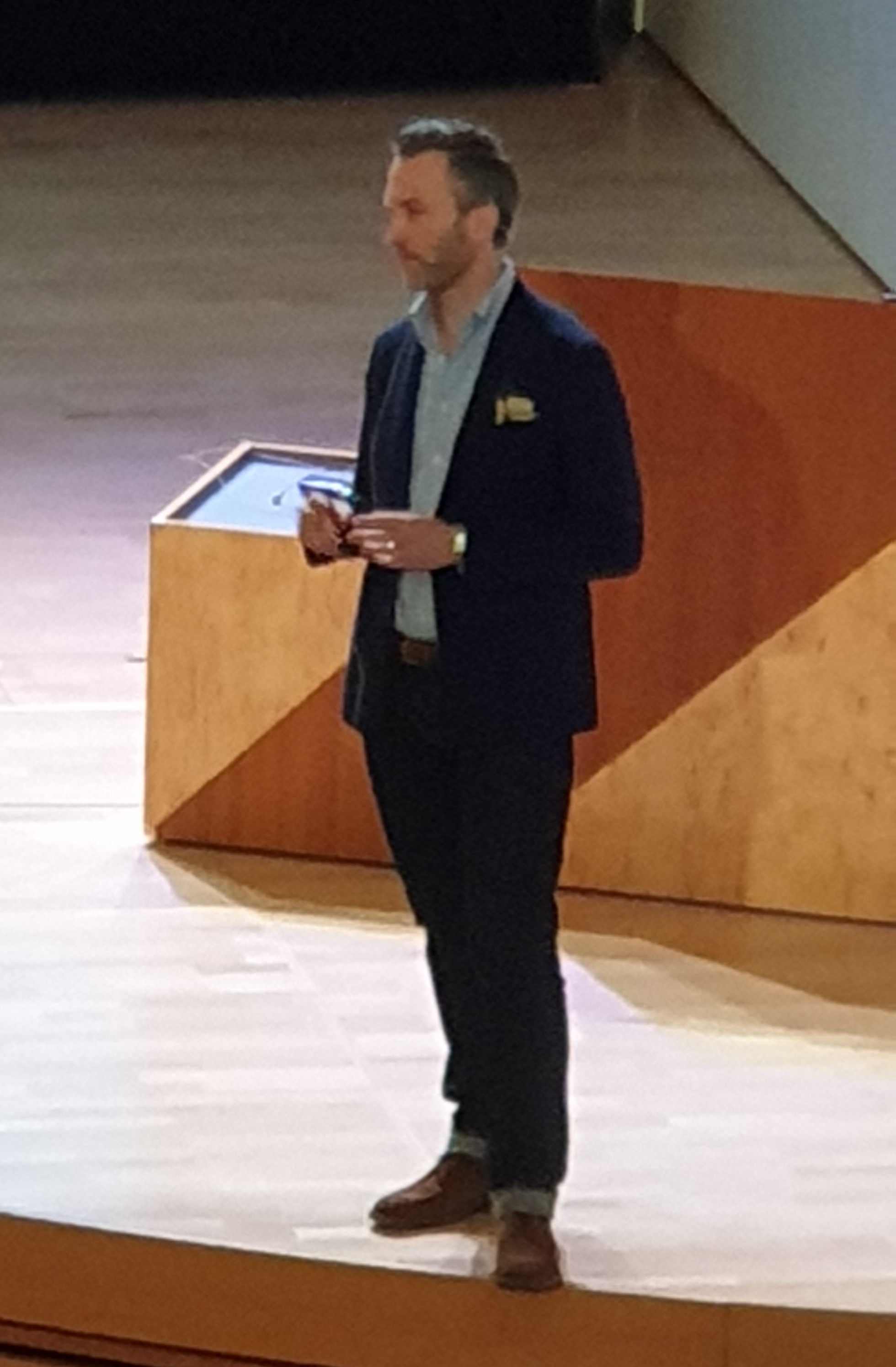 Jacob Östberg, March 2019.